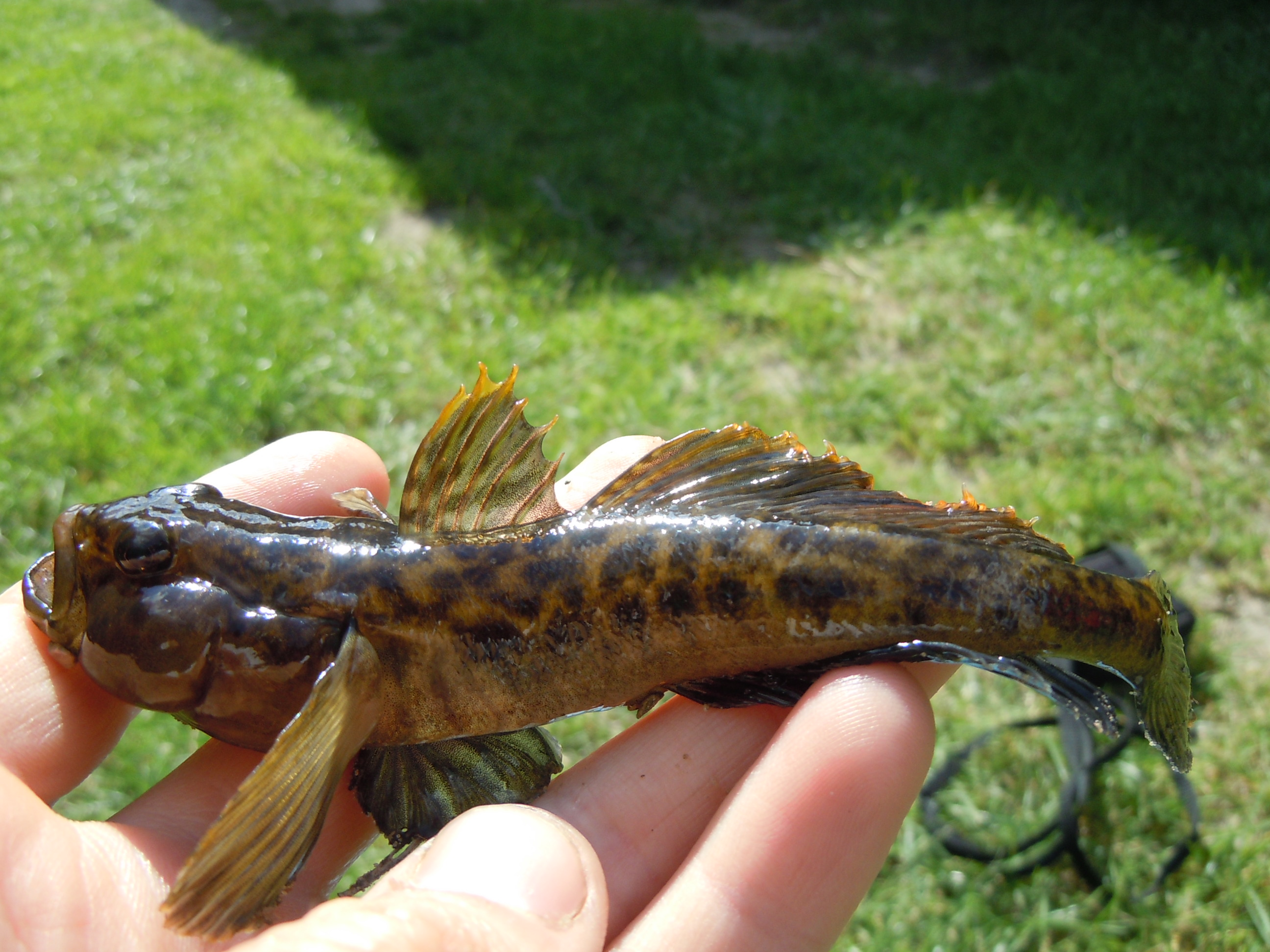 The male of the monkey goby (Neogobius fluviatilis) from the Bug River, Poland